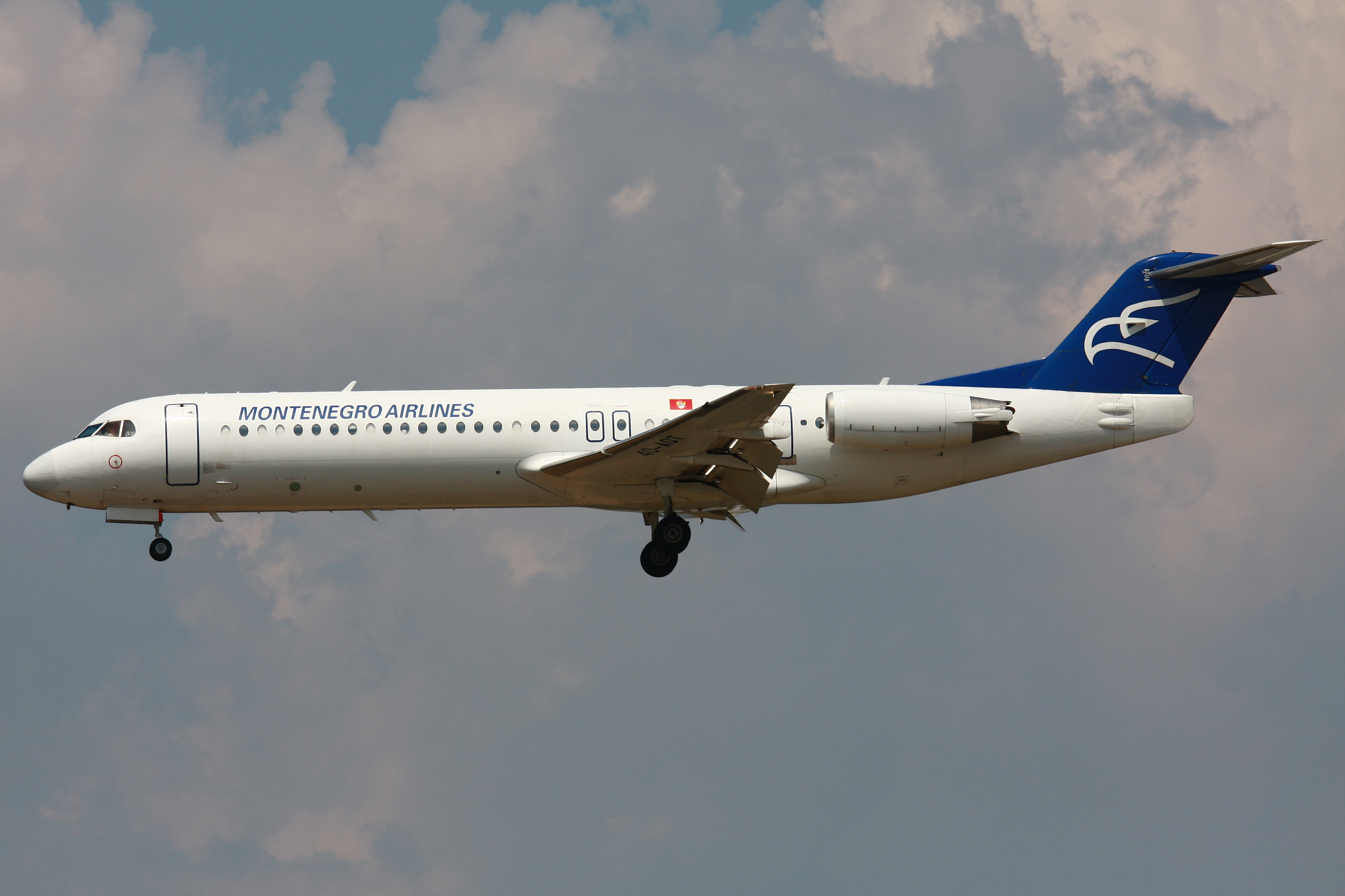 A Fokker 100 of Montenegro Airlines landing at Frankfurt Airport